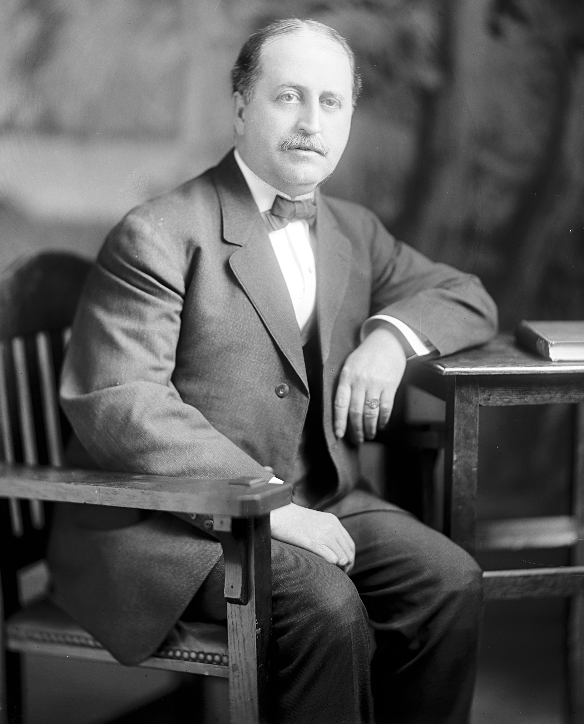 Curtis Hussey Gregg, US Representative from Pennsylvania